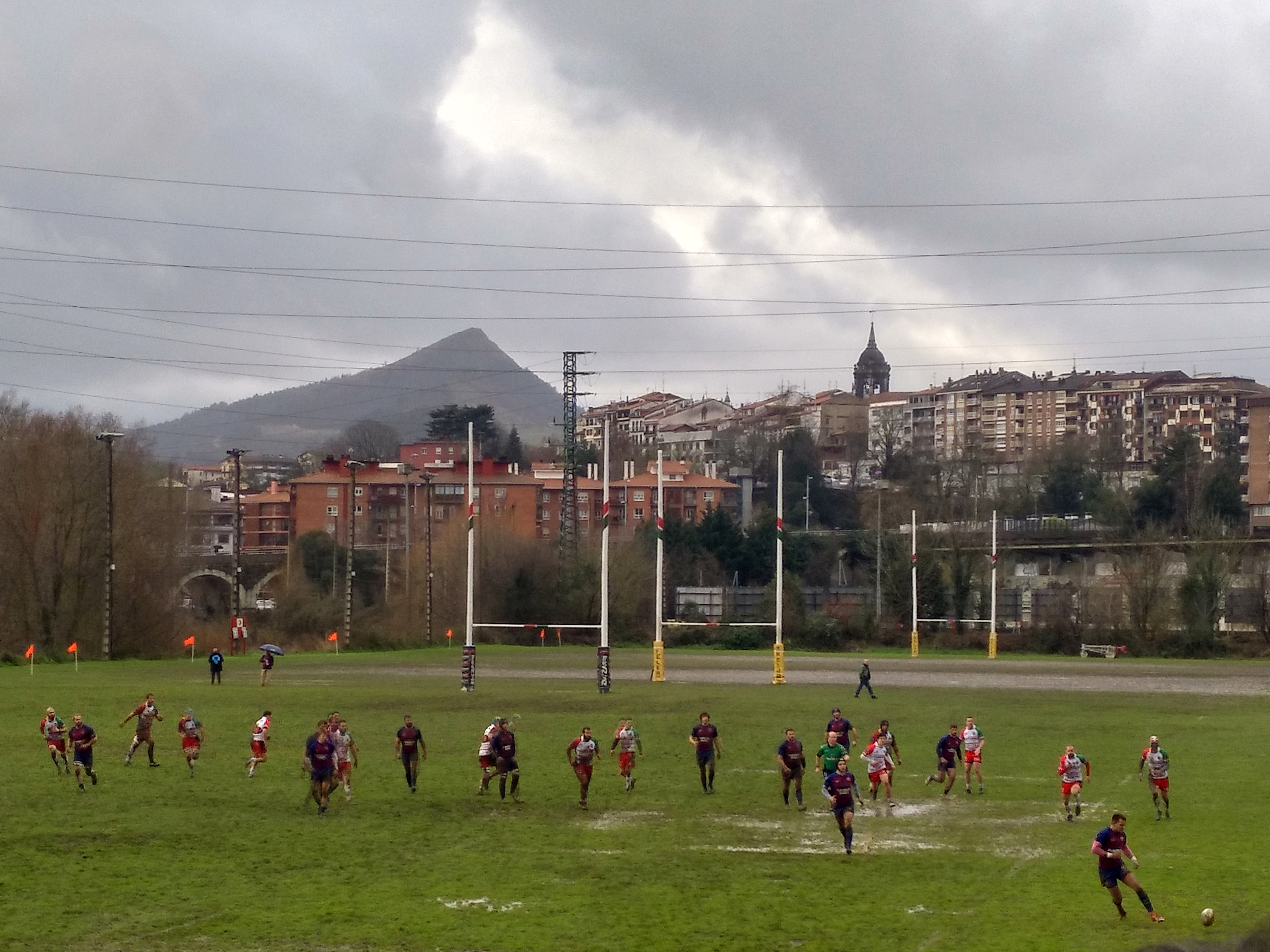 Spanish Cup semifinal, Hernani CRE 10-22 FC Barcelona